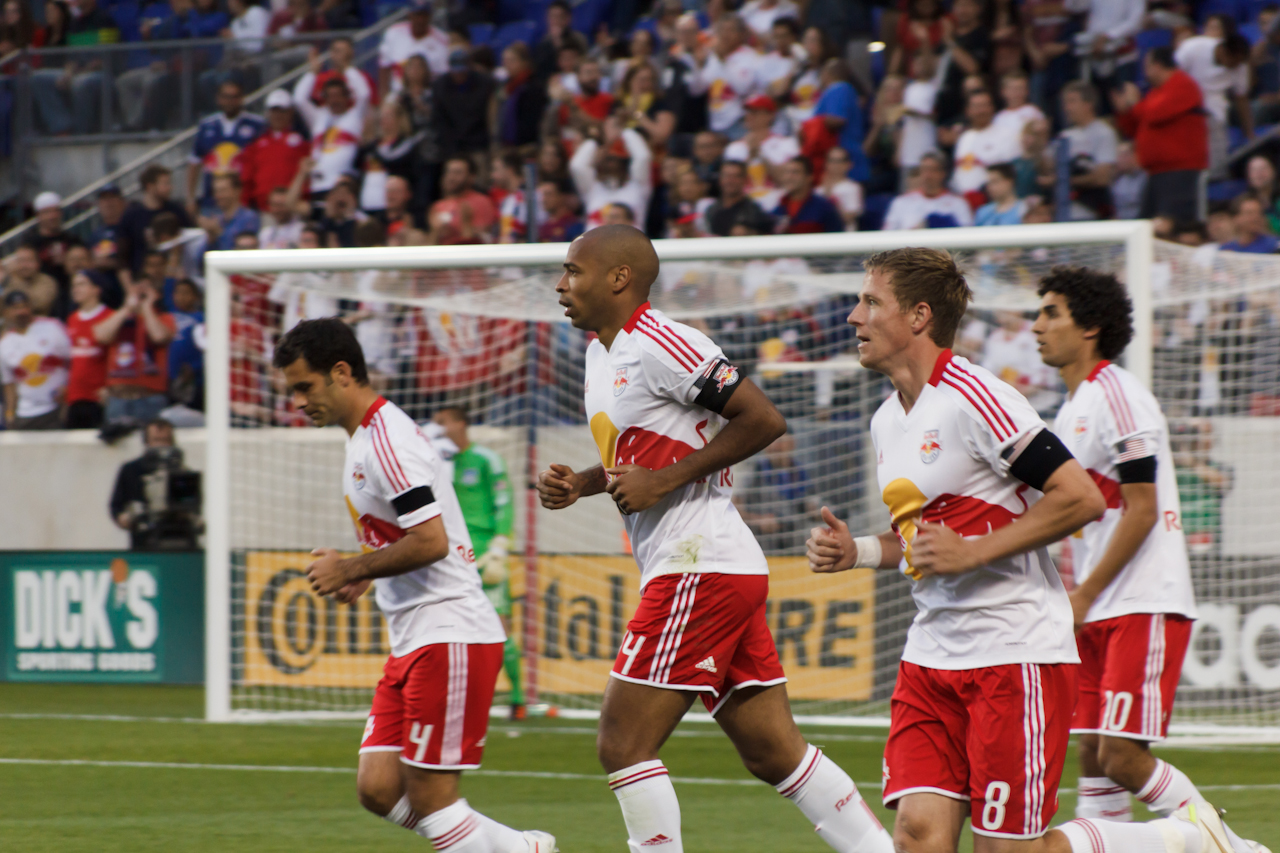 Red Bulls players celebrate their first goal of the match.